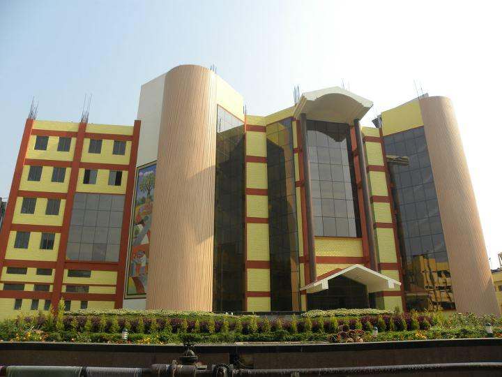 Platinum Jubilee Building of RGKMCH